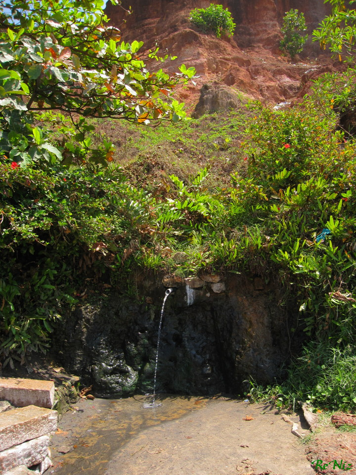 One of the natural spring in the Papanasham Beach, Varkala. It is medicated by nature.